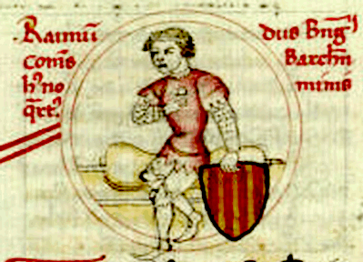 Ramon Berenguer IV. (Barcelona)